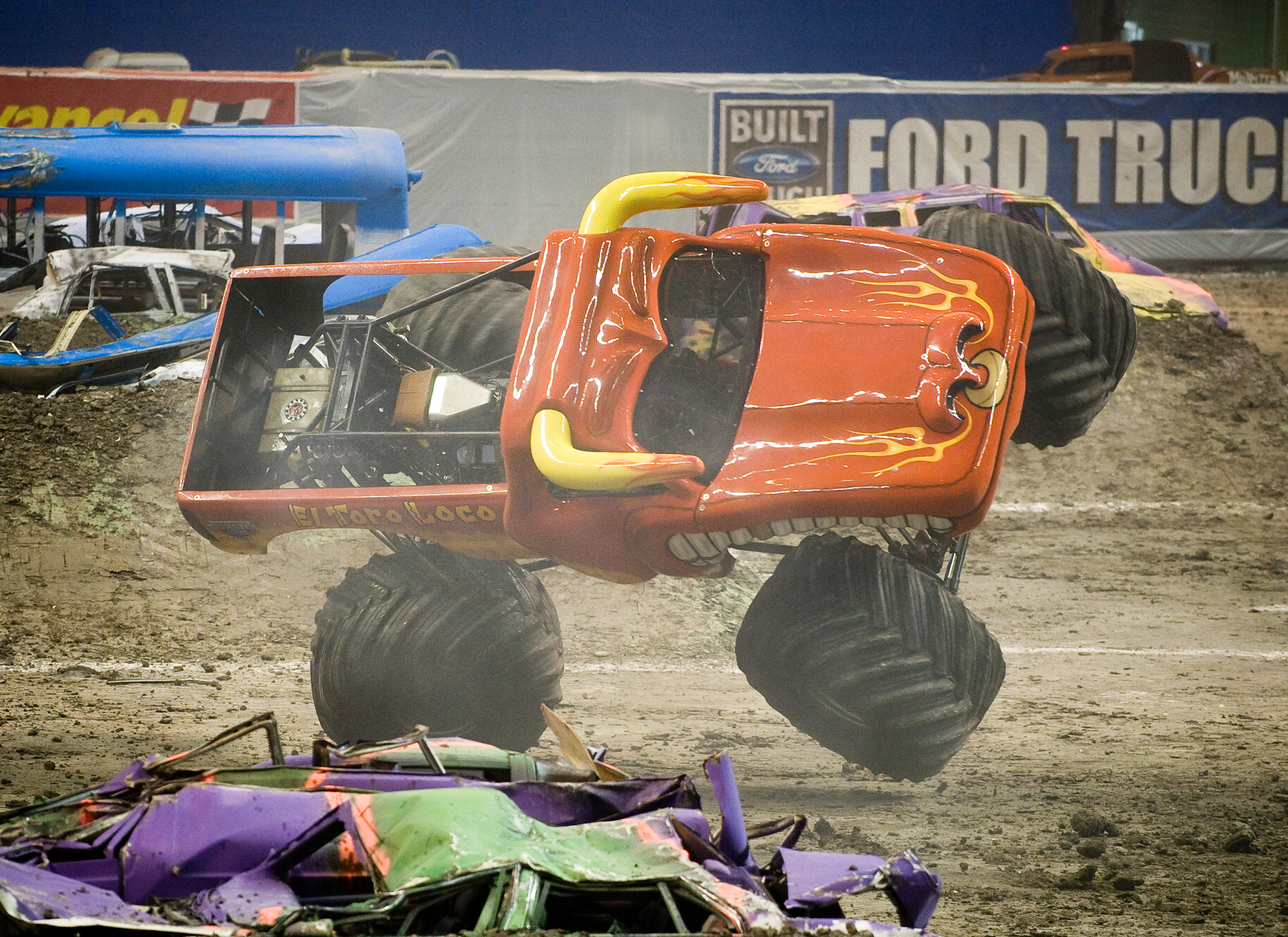 Lupe Soza, driving El Toro Loco, gave the best freestyle performance with a perfect score to win the event at the 2009 Monster Jam at the Alamodome in San Antonio on Jan 11. Mr. Soza drove his truck to the limit with multiple two-wheeled saves as he jumped off, bounced on and drove over the obstacles made of dirt mounds, busses and crushed cars. Approximately 45,000 people attend the event. These monster trucks have big block supercharged racing V-8 engines that churn out more than 1,400 horsepower. They weigh approximately 10,000 lbs and are equipped with four-wheel steering. The wheels and tires are 66" tall and weigh 750 lbs.